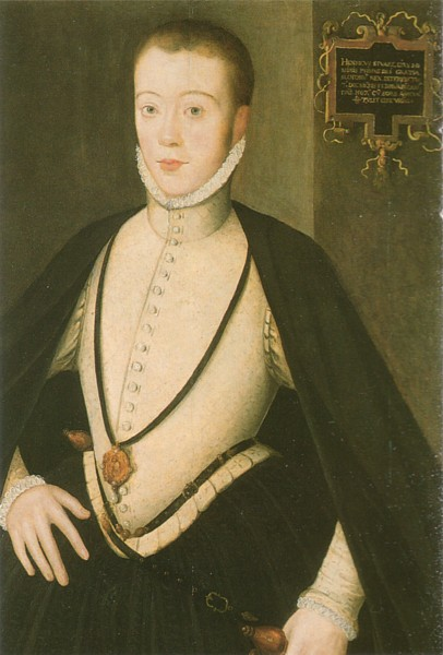 Portrait of Henry Stuart, Lord Darnley (1545–1567), titular King of Scots